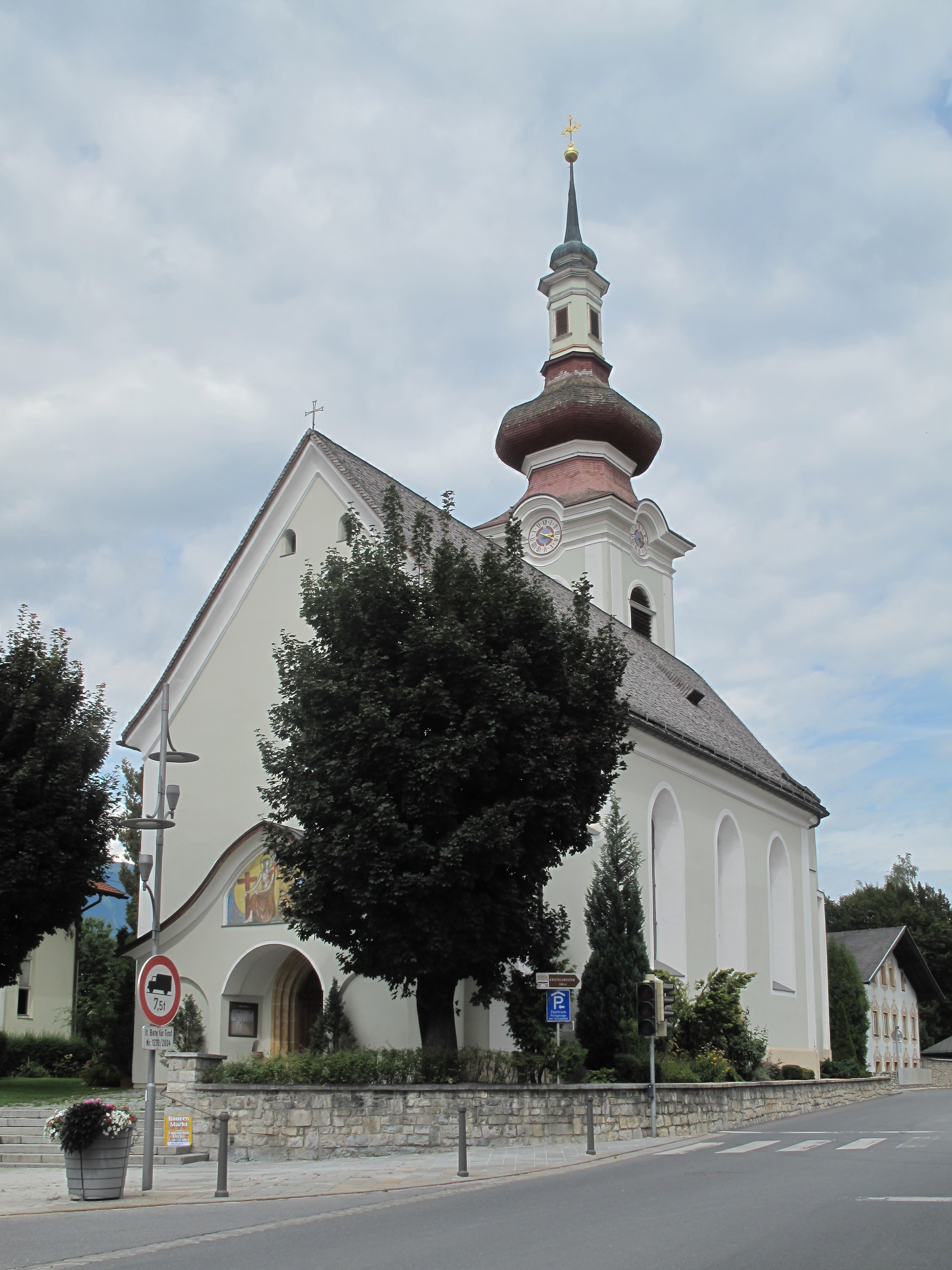 Wattens, church: die Laurentskirche